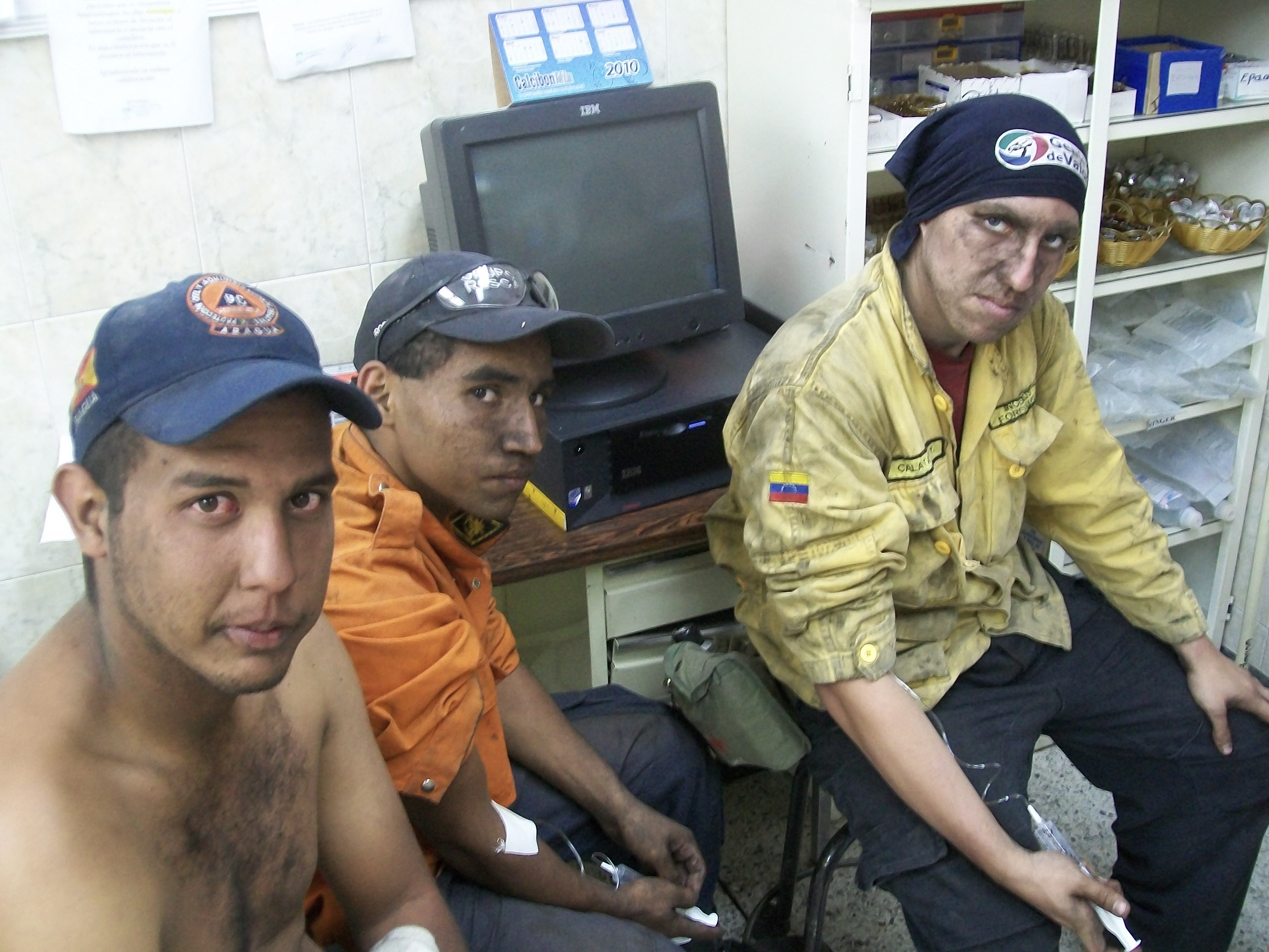 Firefighters receiving treatment for smoke inhalation after wildfire suppression in Maracay's Henri Pittier National Park, Venezuela.